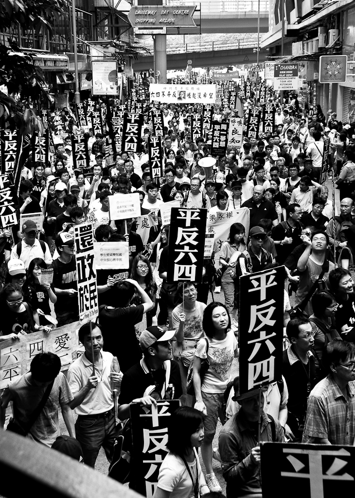 20th anniversary of the June 4th incident. A protest in HK on May 31, 2009